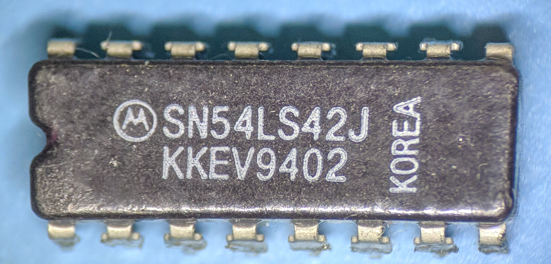 Package top of a Motorola 54LS42 chip, datecode 9402.